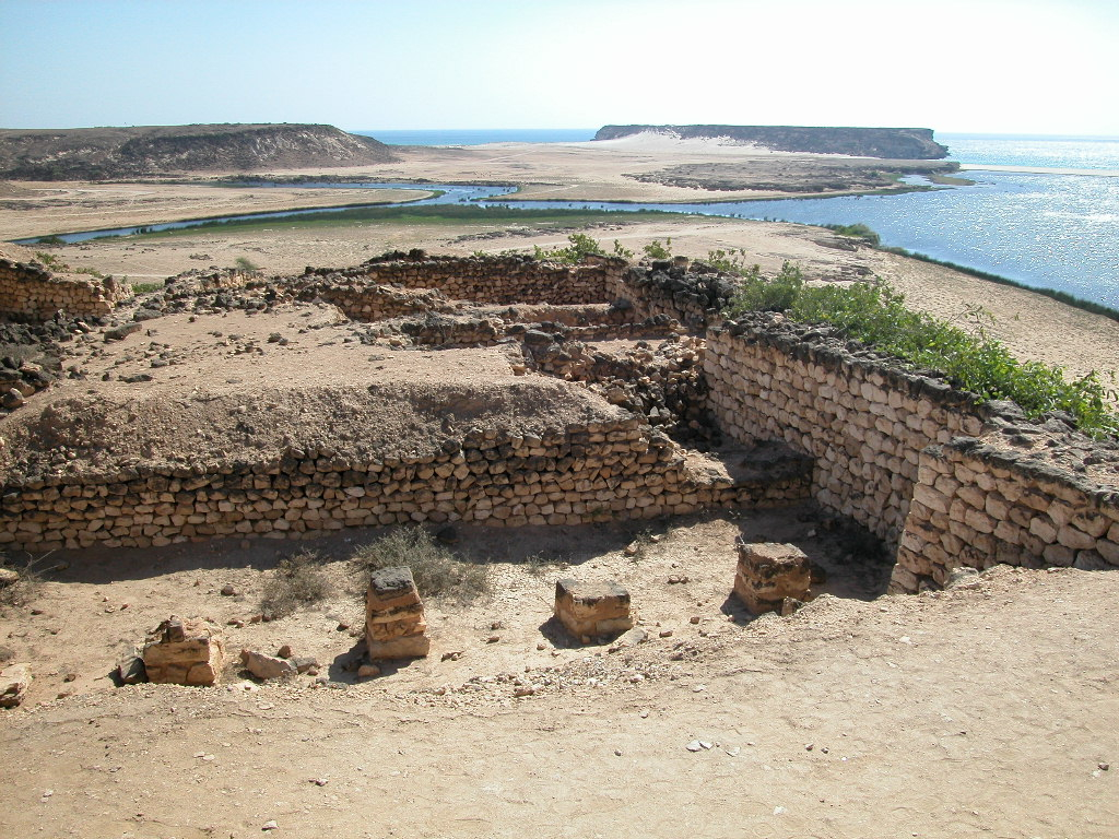 Land of Frankincense (Oman)